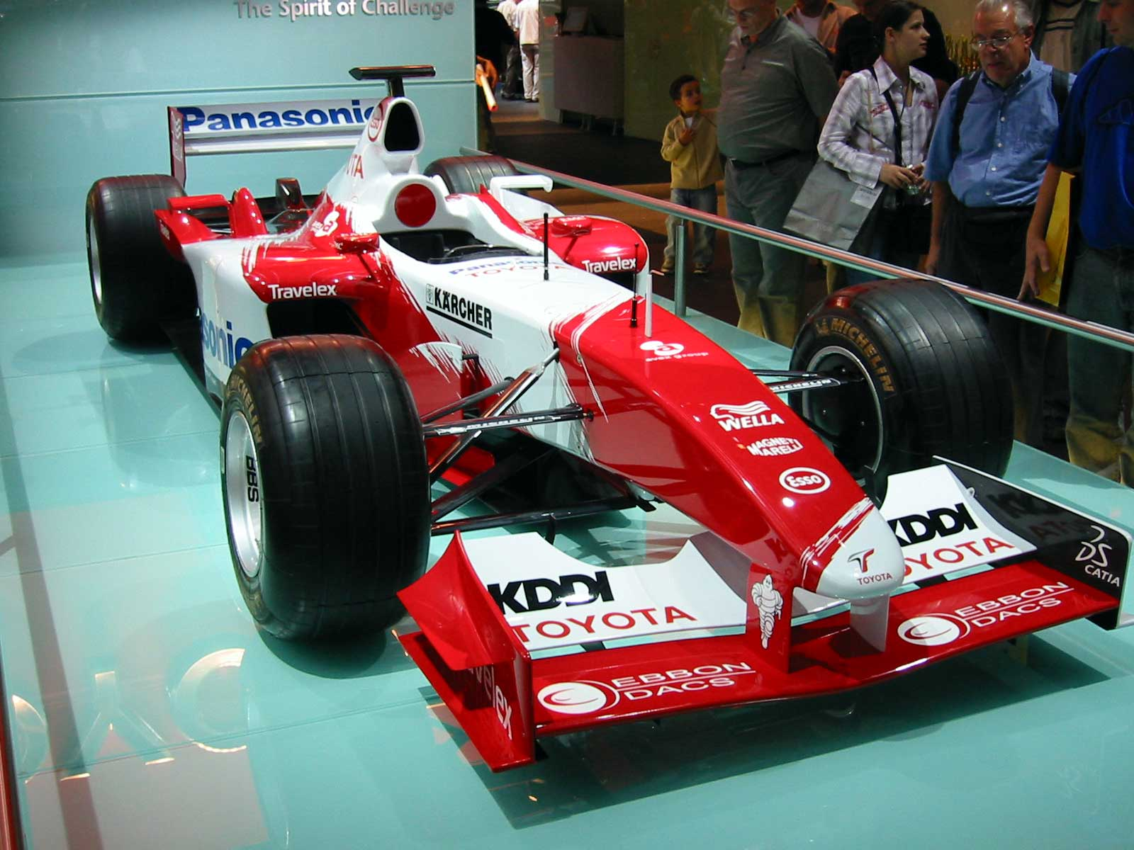 Toyota F1 Car at the IAA 2003